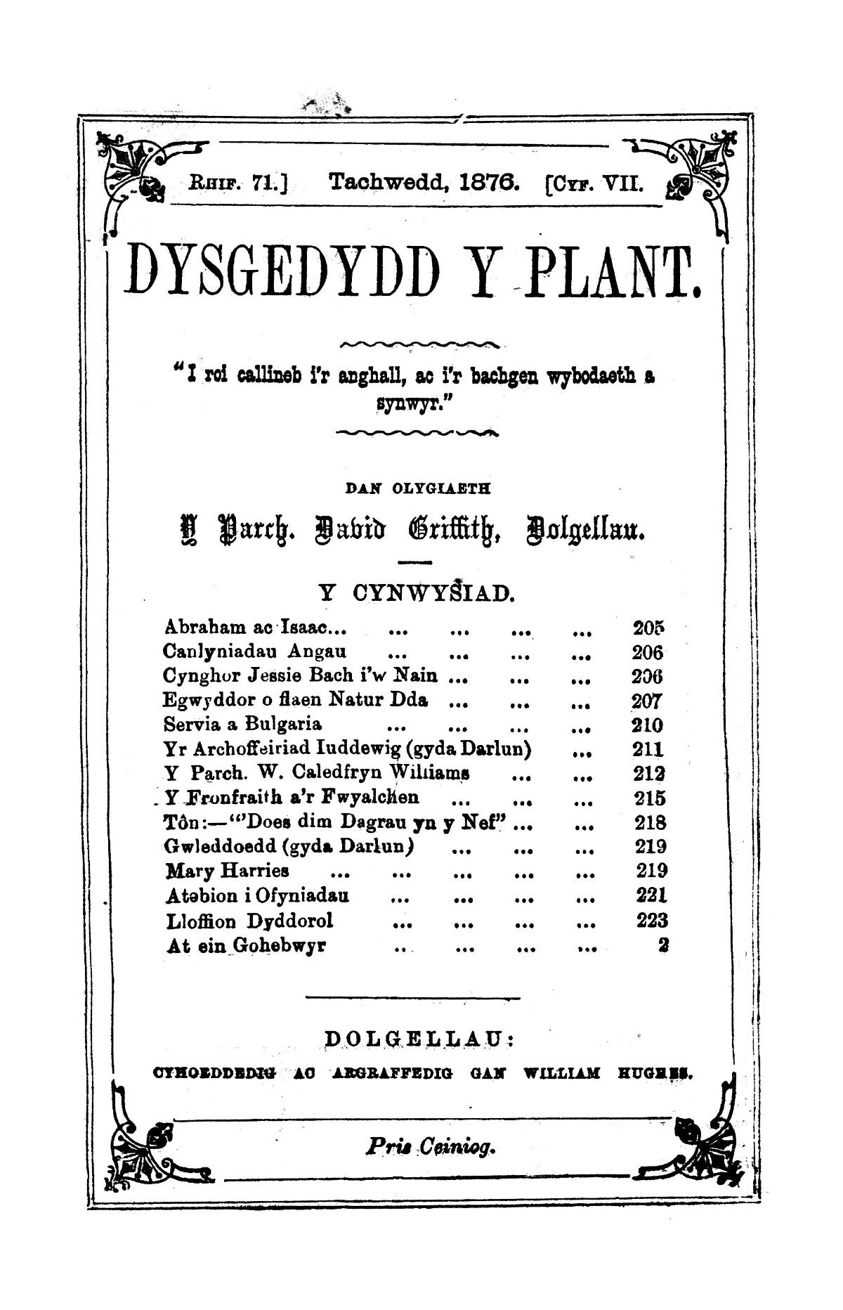 A monthly Welsh language religious periodical serving the children of the Sunday schools of the Congregationalist denomination. The periodical's main contents were religious articles, biographies and general educational articles. Amongst the periodical's editors were David Griffith (1823-1913); David Silyn Evans (Silyn) and Richard Roberts (Gwylfa, 1821-1935). Associated titles: Dysgedydd y Plant a Chydymaith yr Ysgol Sul (1889); Tywysydd y Plant (1933).